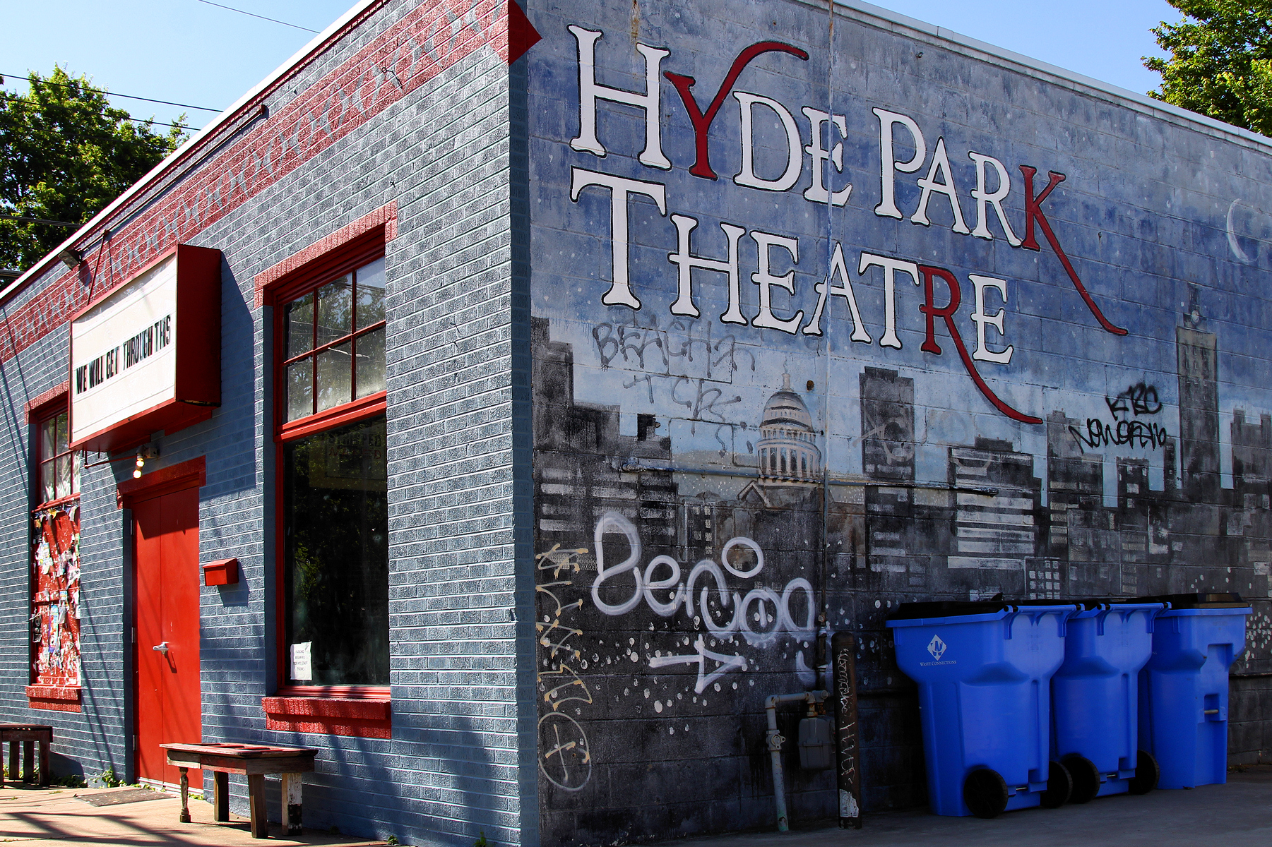 The Hyde Park Theatre Building in Austin, Texas, United States.